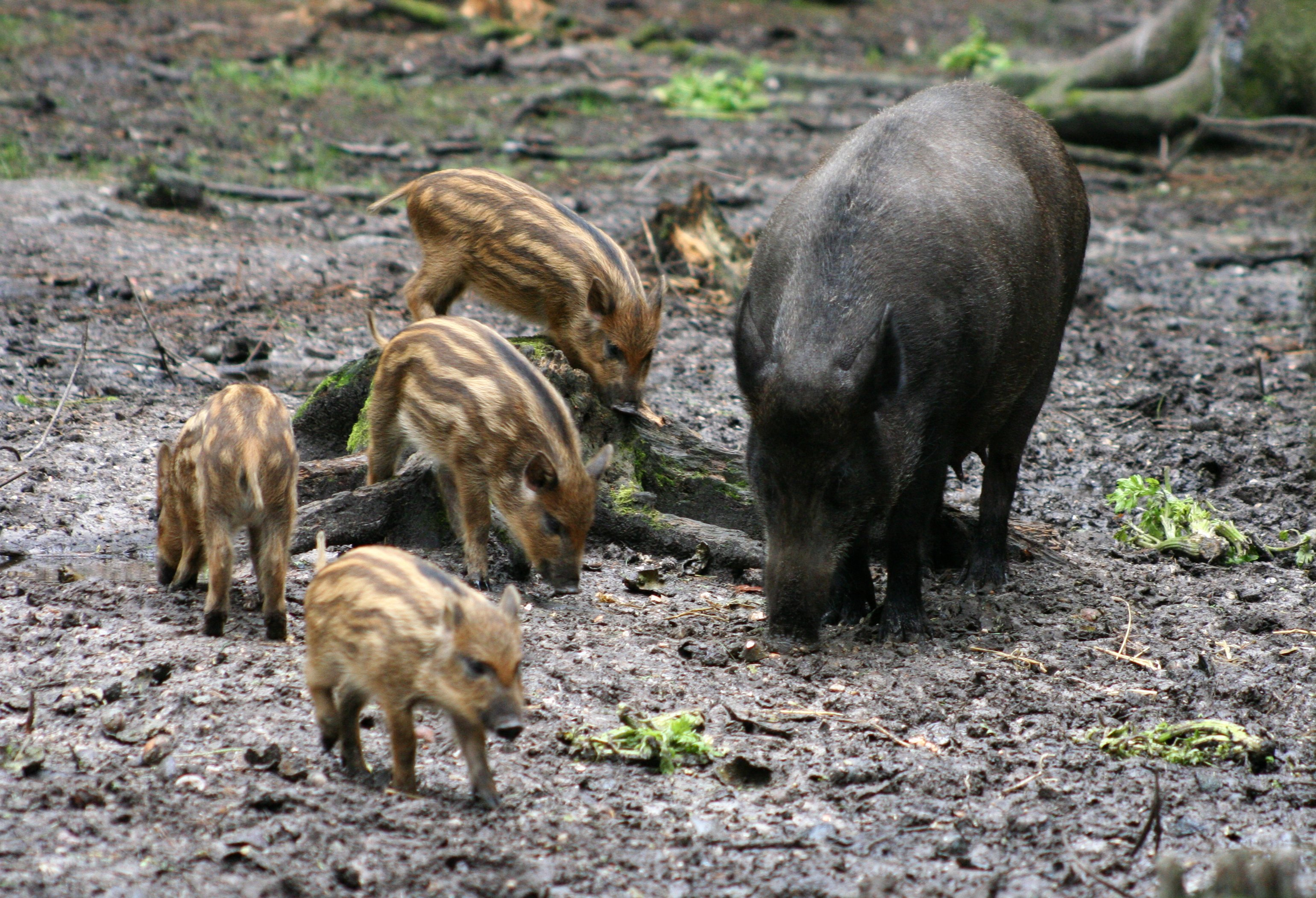 Wild boar (Sus scrofa), at the New Forest Otter, Owl and Wildlife Park (Hampshire, England).